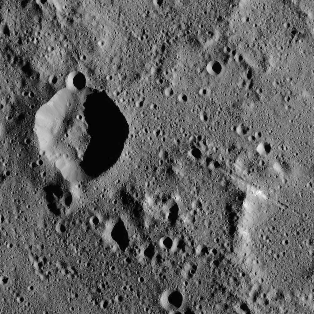 PIA20297: Dawn LAMO Image 7 NASA's Dawn spacecraft captured this image of unnamed craters in the southern hemisphere of Ceres. The image is centered at approximately 45 degrees south latitude, 325 degrees east longitude. Dawn took this image on Dec. 18, 2015, from its low-altitude mapping orbit (LAMO), at an approximate altitude of 240 miles (385 kilometers) above Ceres. The image resolution is 120 feet (35 meters) per pixel. Dawn's mission is managed by JPL for NASA's Science Mission Directorate in Washington. Dawn is a project of the directorate's Discovery Program, managed by NASA's Marshall Space Flight Center in Huntsville, Alabama. UCLA is responsible for overall Dawn mission science. Orbital ATK, Inc., in Dulles, Virginia, designed and built the spacecraft. The German Aerospace Center, the Max Planck Institute for Solar System Research, the Italian Space Agency and the Italian National Astrophysical Institute are international partners on the mission team. For a complete list of acknowledgments, For more information about the Dawn mission, visit